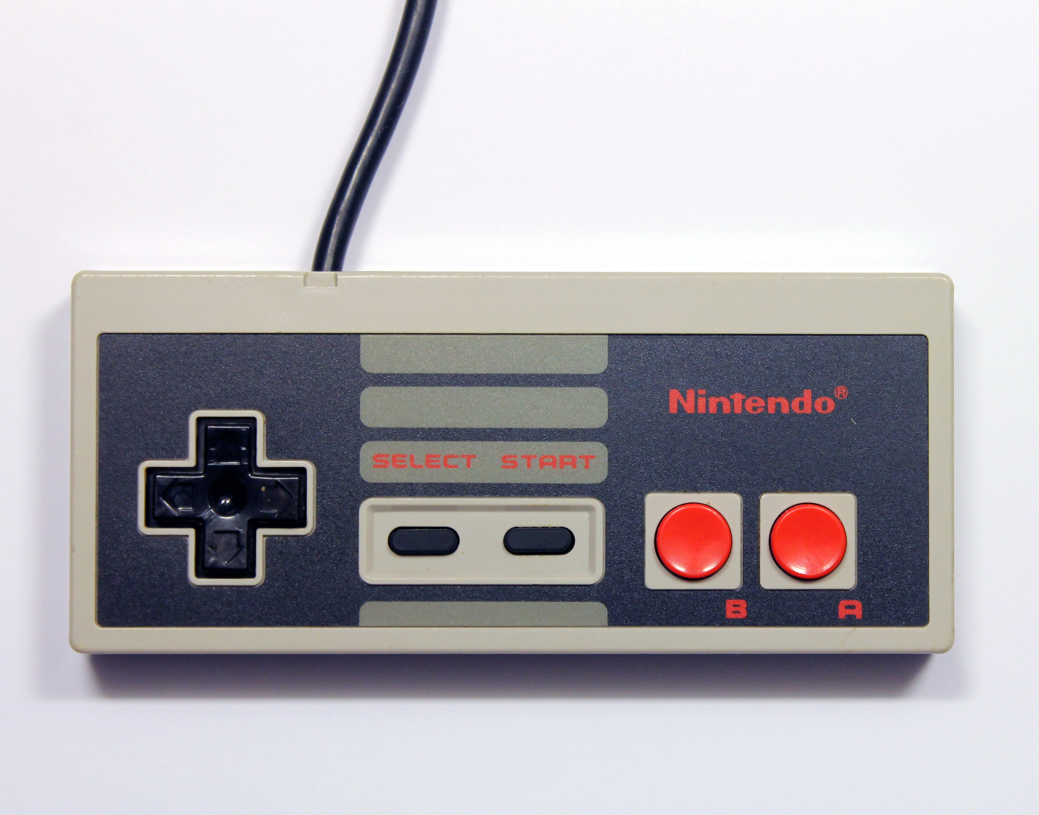 a NES controller